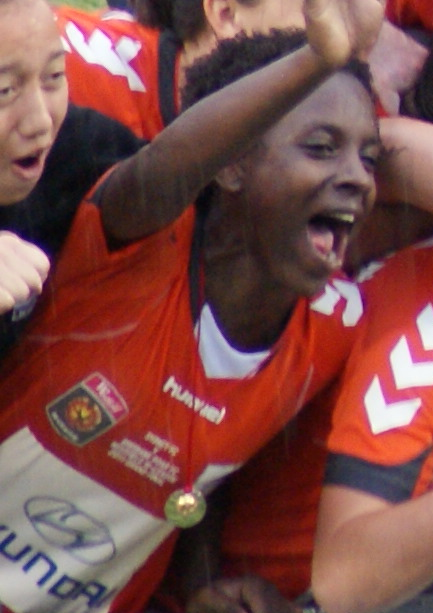 Brisbane Roar, W-League Grand Final champions 2010/11 Match Report: Photos by Pete Nowakowski